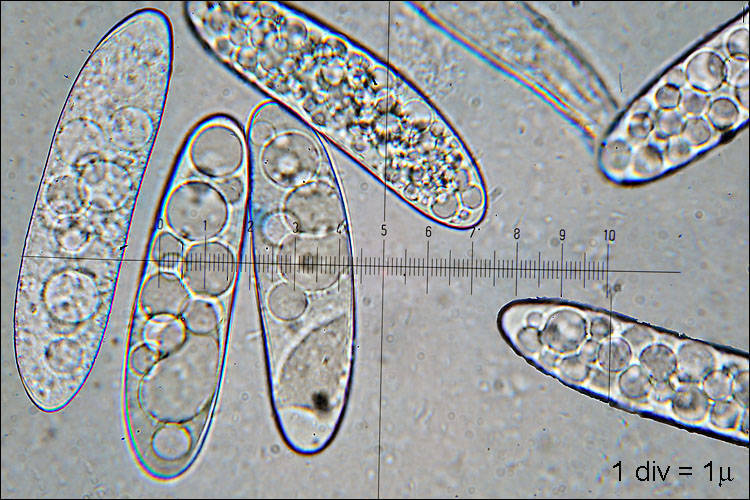 The basidiospores of the false morel mushroom Verpa bohemica (Krombh.) J.Schröt. The specimens from which the spores were obtained were collected from Bovec basin, East Julian Alps, Posočje, Slovenia. Magnification 1.000x